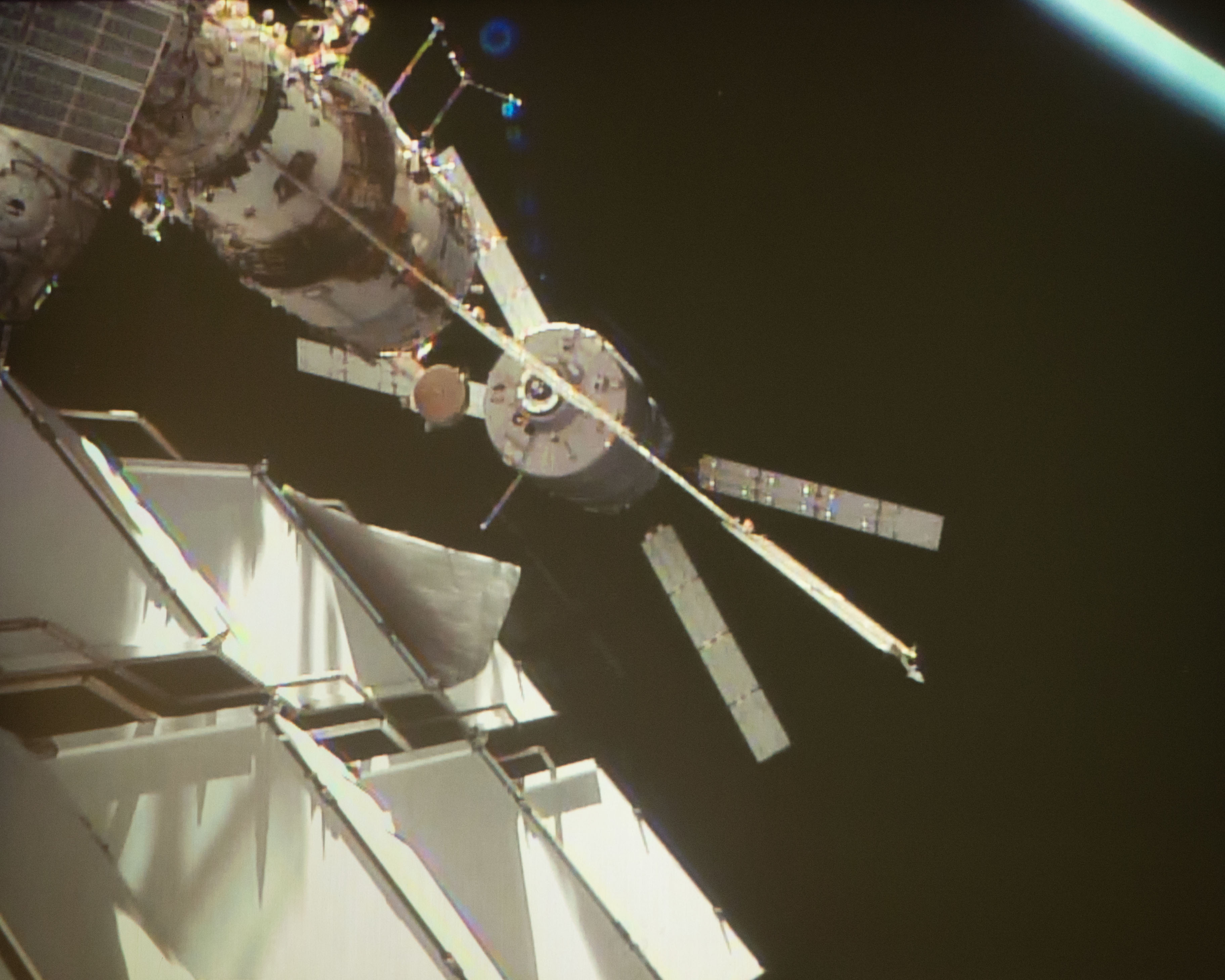 Inside the space station flight control room in JSC's Mission Control Center, a live television downlink appears on a giant screen for the benefit of flight controllers who are managing the docking of the ATV-4 Albert Einstein. The fourth European space station resupply spacecraft docked with the orbital outpost on June 15, 2013.